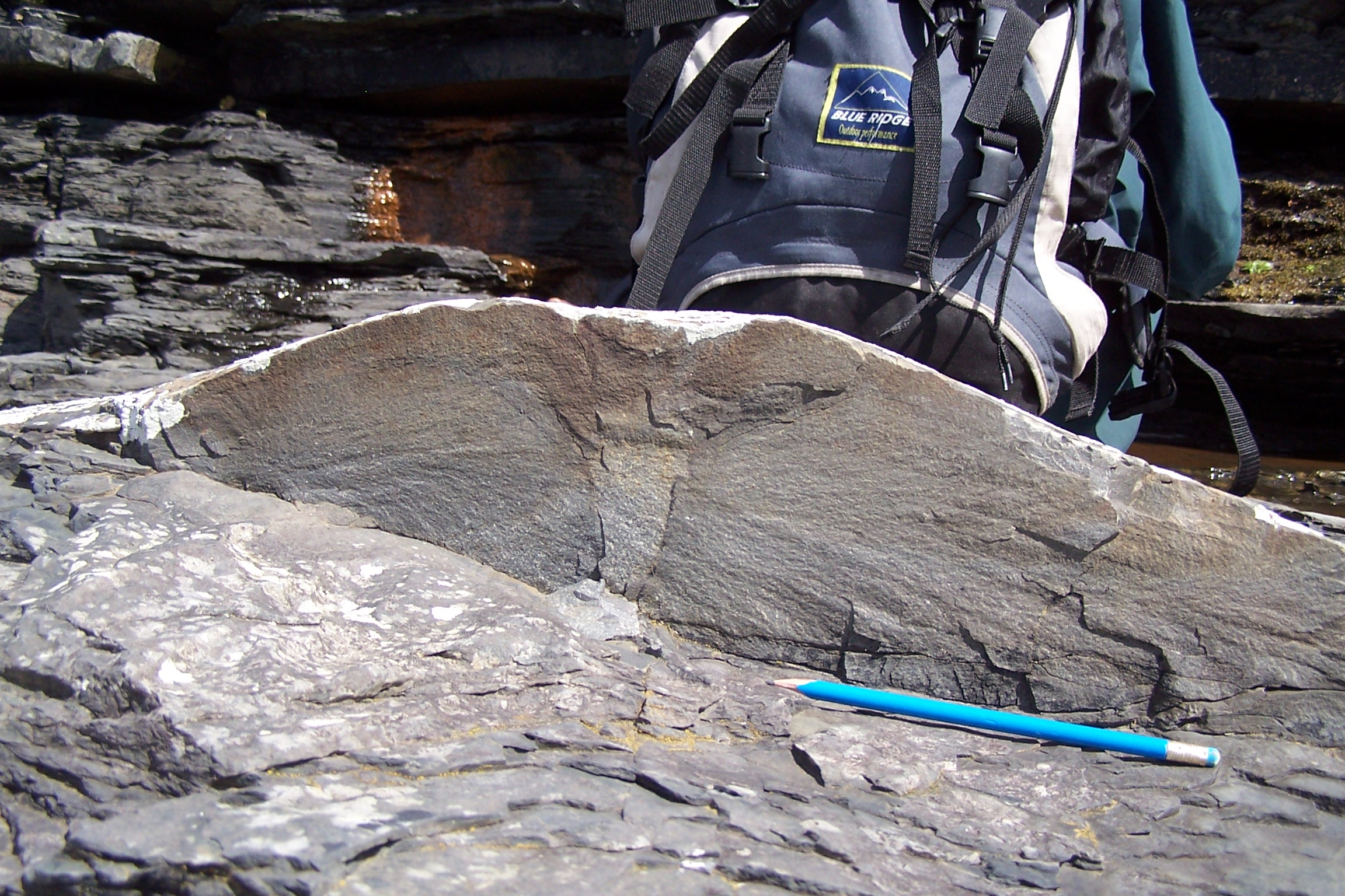 The cross section of a sand volcano. County Clare, Ireland. Photo by Edward Lewis